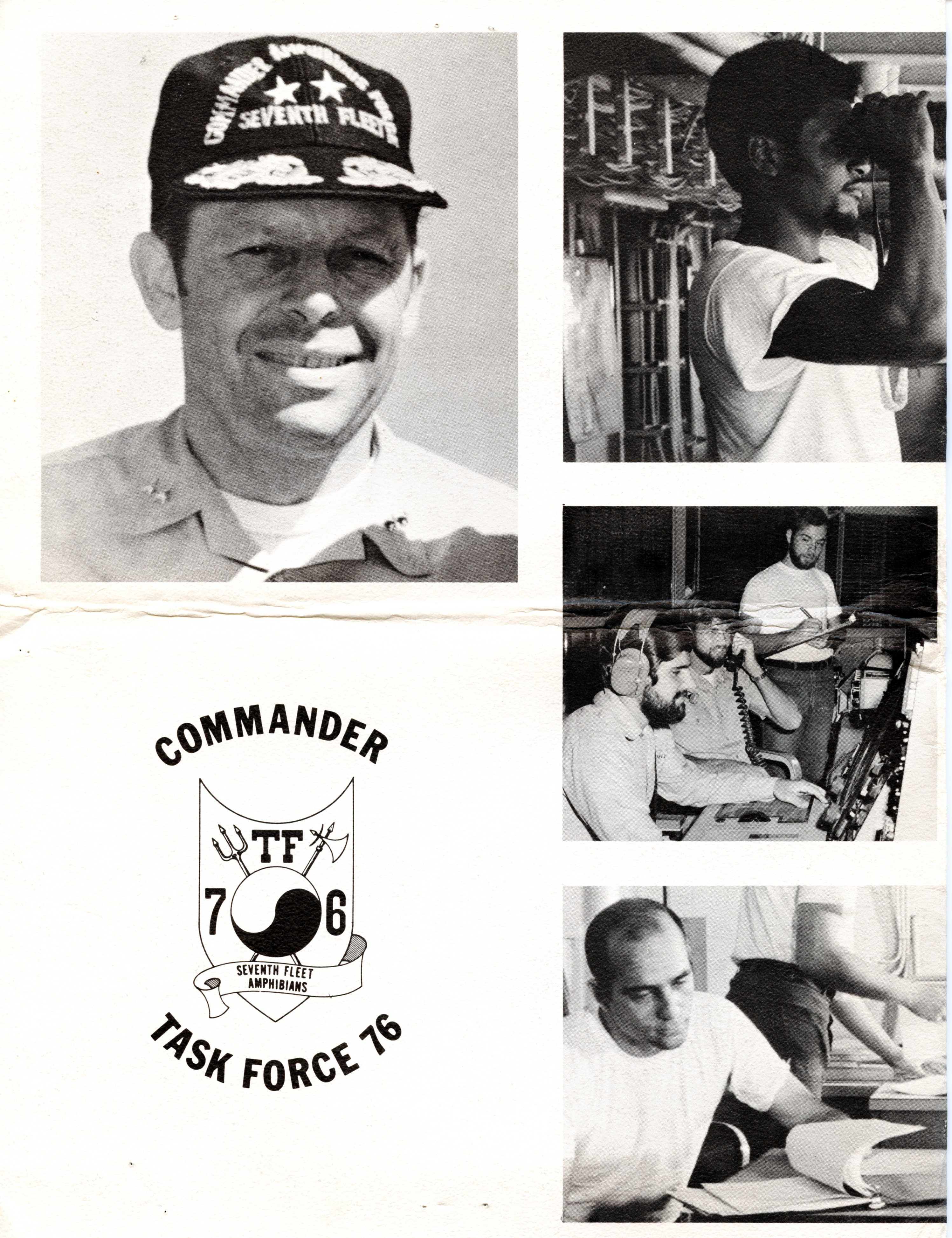 wyswyg